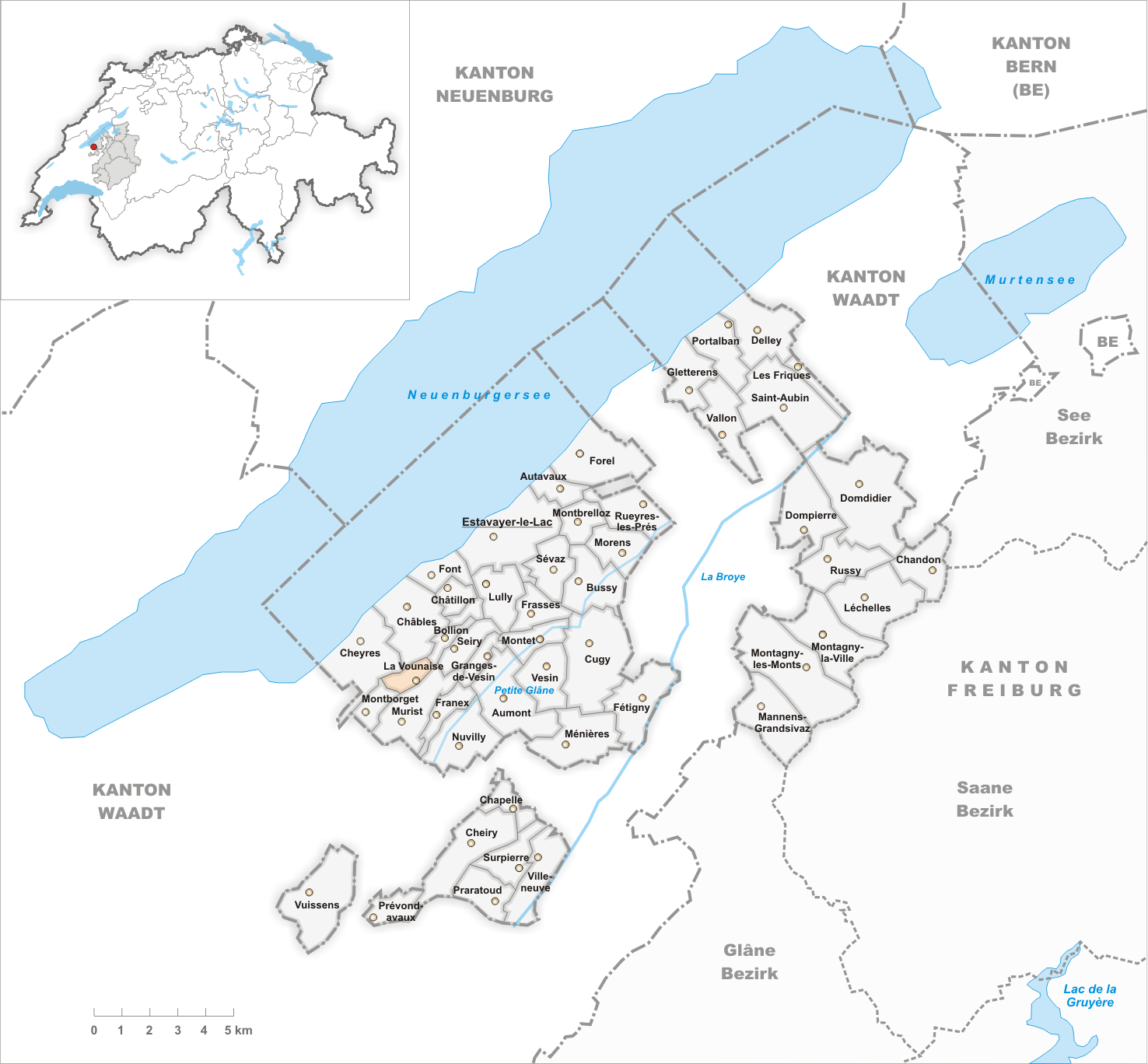 Municipality La Vounaise Artist: Tschubby